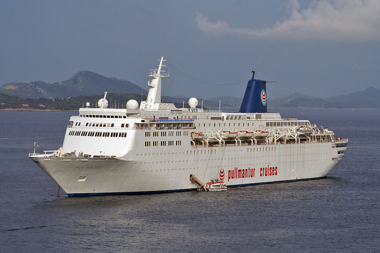 The cruise ship Sky Wonder moored at Dubrovnik on August 13, 2006.